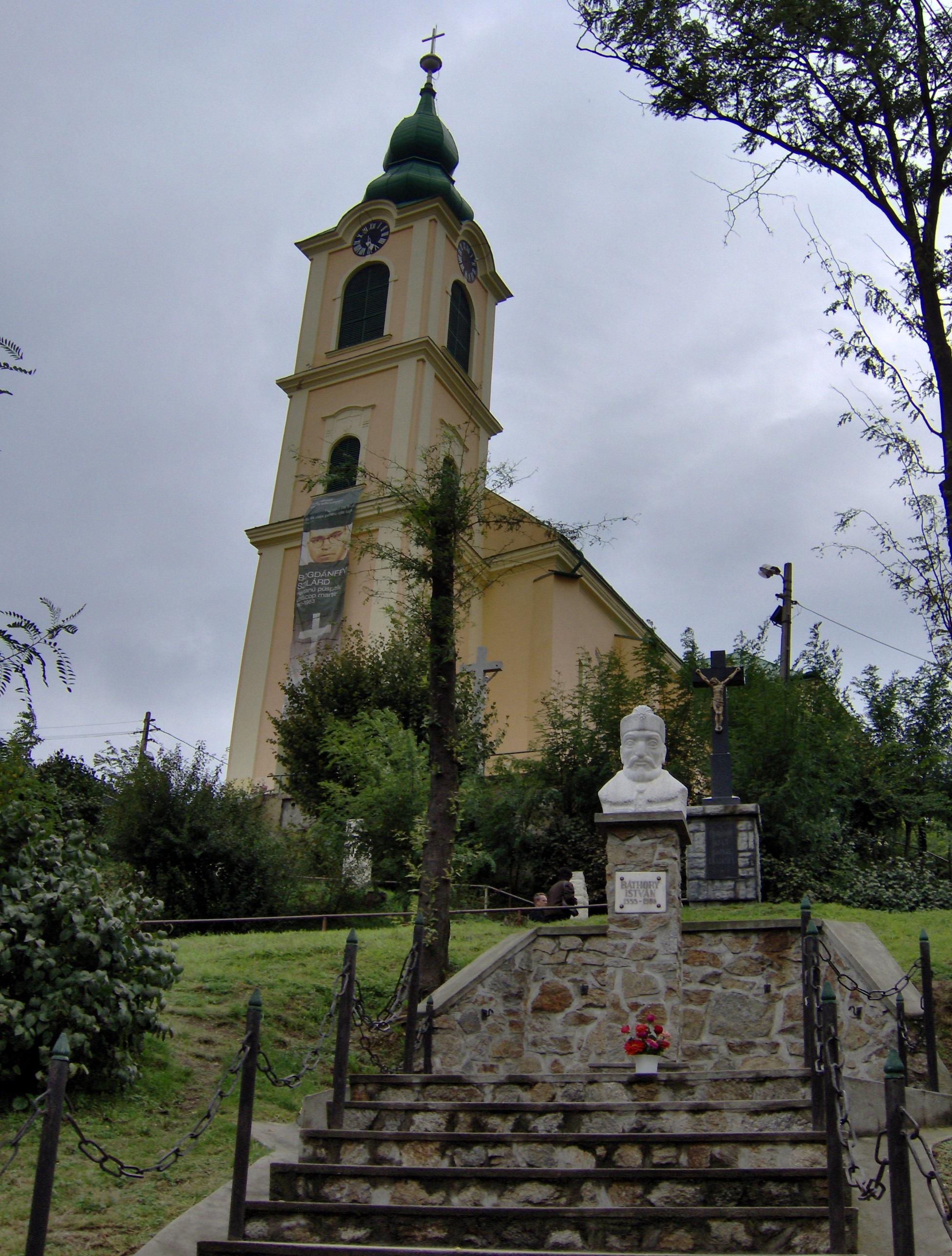 Roman Catholic church in Şimleu Silvaniei, bust of Stephen Báthory